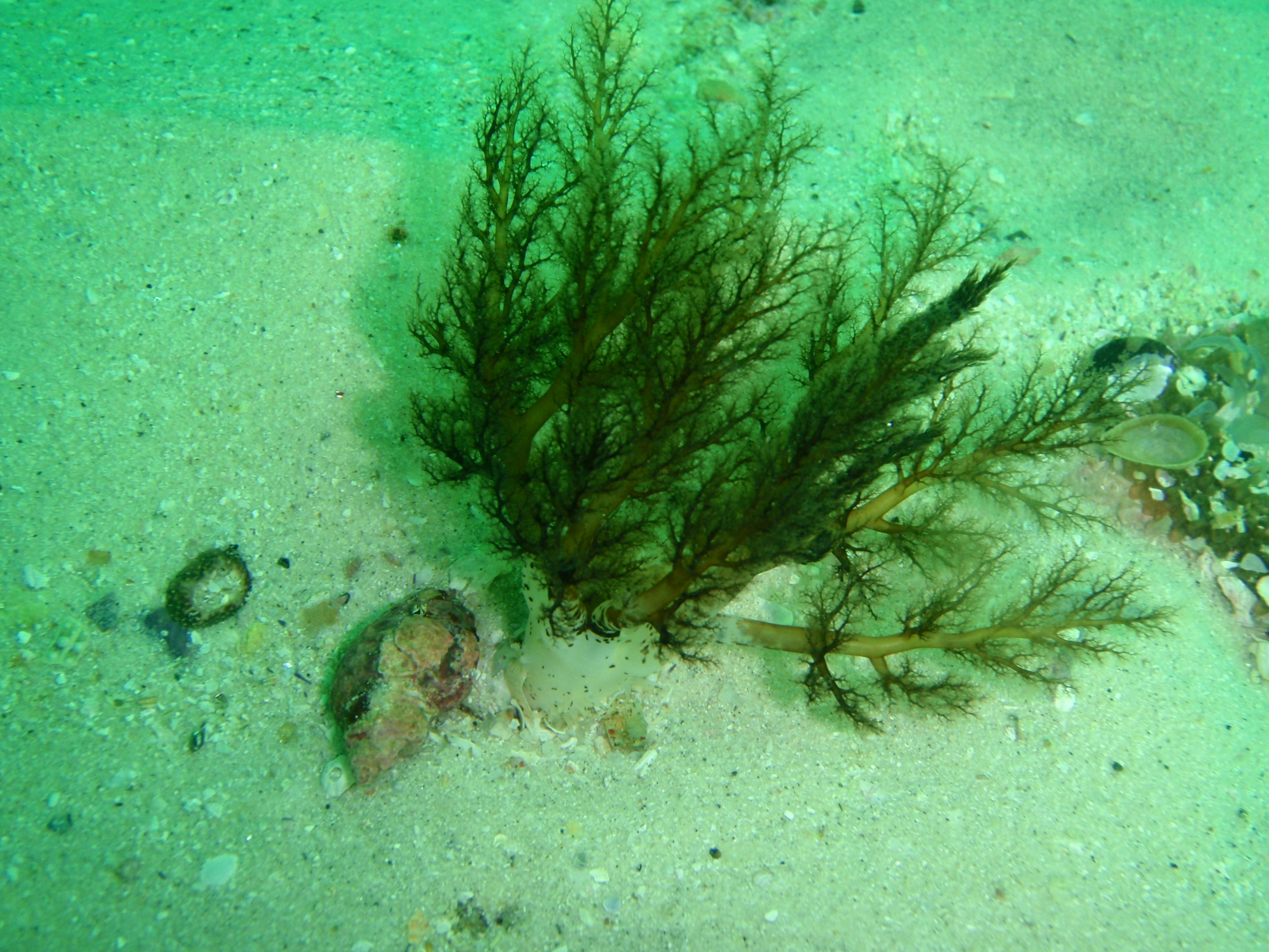 Buried sea cucumber at Windmill Beach on the Cape Peninsula